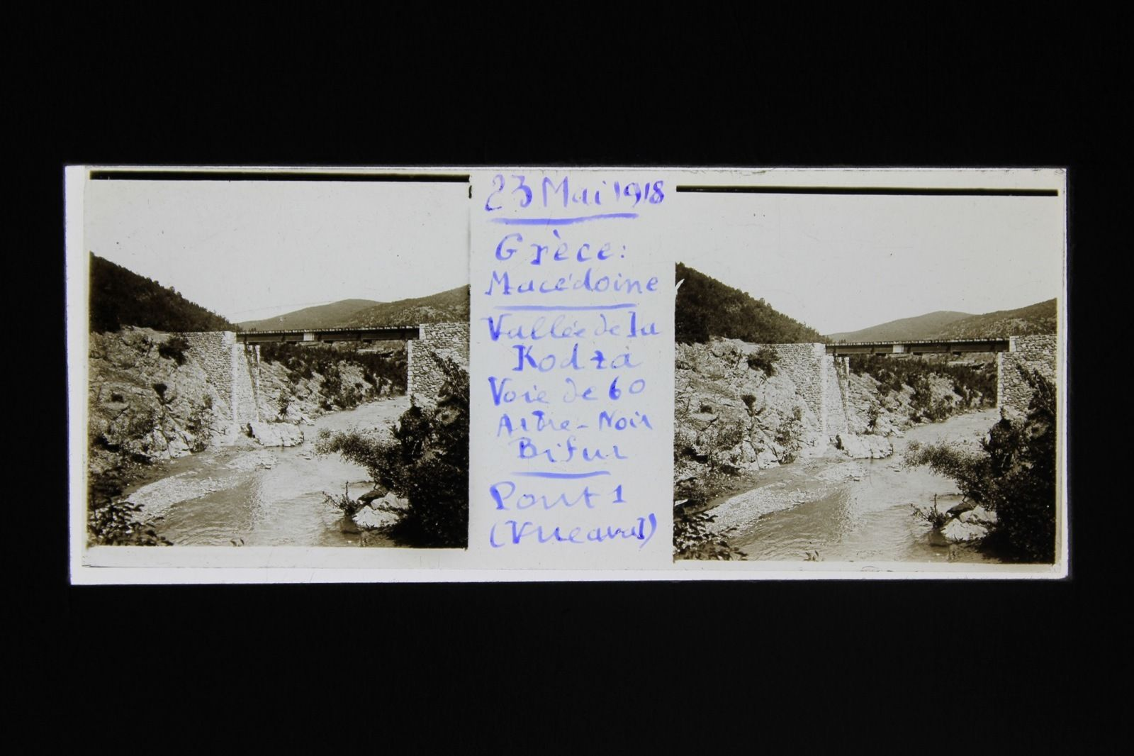 Koca Omerli in WWI Bridge